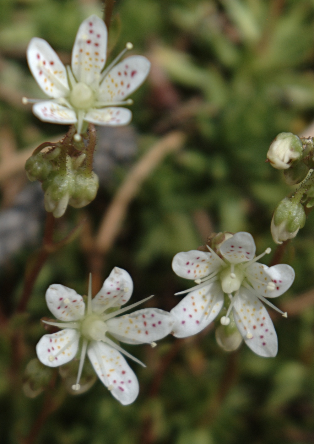 Flowers of Saxifraga bronchialis subspecies austromontana, dotted saxifrage or matted saxifrage, Santa Fe Ski Basin, Santa Fe National Forest, New Mexico. Thanks to lots of people at NMPLANTS-L for identification.